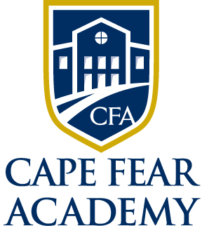 Cape Fear Academy's current logo